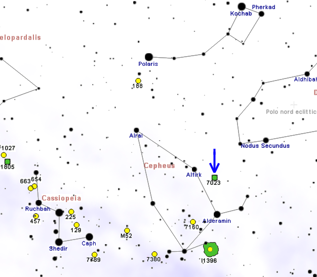 Map of NGC 7023